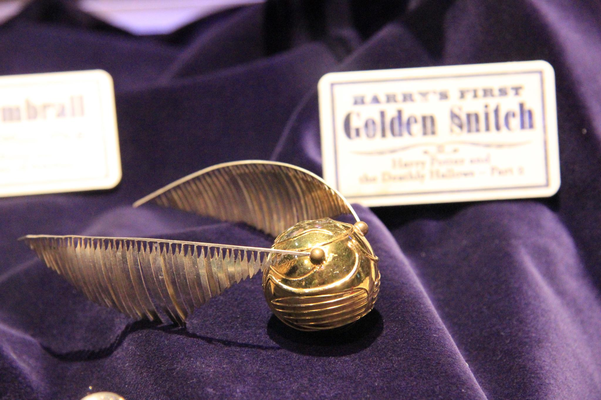 Warner Bros. Studio Tour London: The Making of Harry Potter.